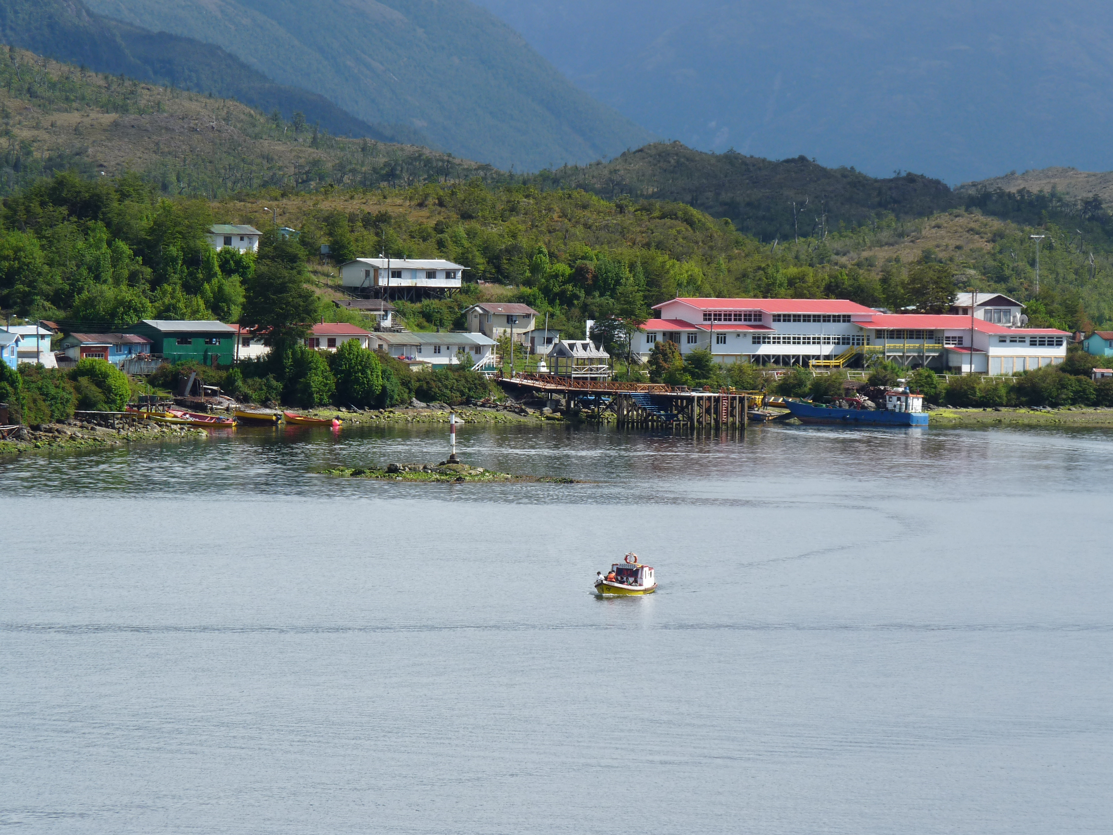 View of the harbour of Villa Puerto Edén, Patagonia, Chile.